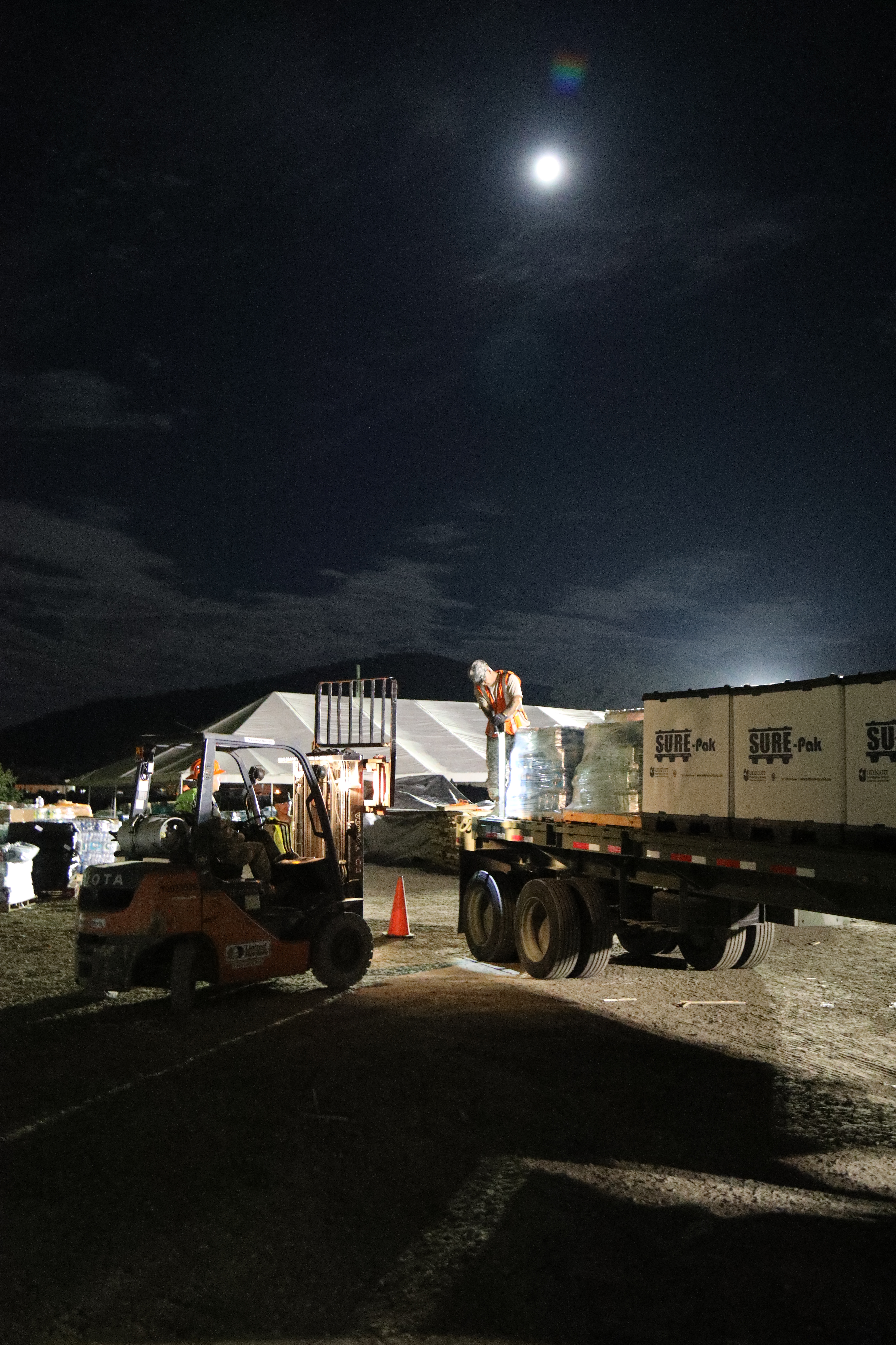 Members of the New York Guard load supplies for Puerto Rico during the Fall of 2017 State Active Duty Operation Maria deployment.